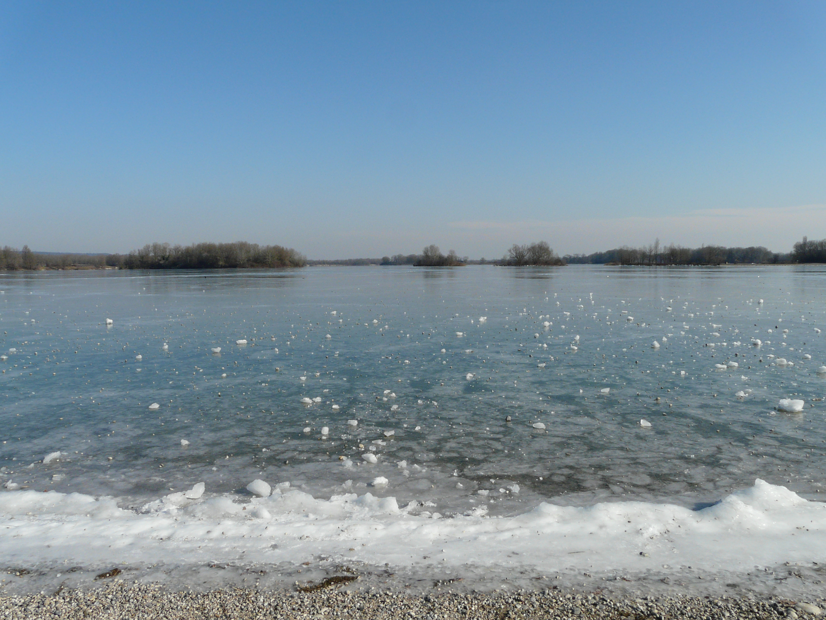 Morlet Beach in winter, on the Lac des Eaux Bleues (Lake of Blue Waters), in the Grand Parc de Miribel-Jonage, Vaulx-en-Velin, Rhône-Alpes, France.